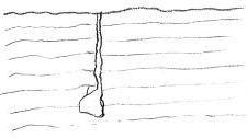 Geological process